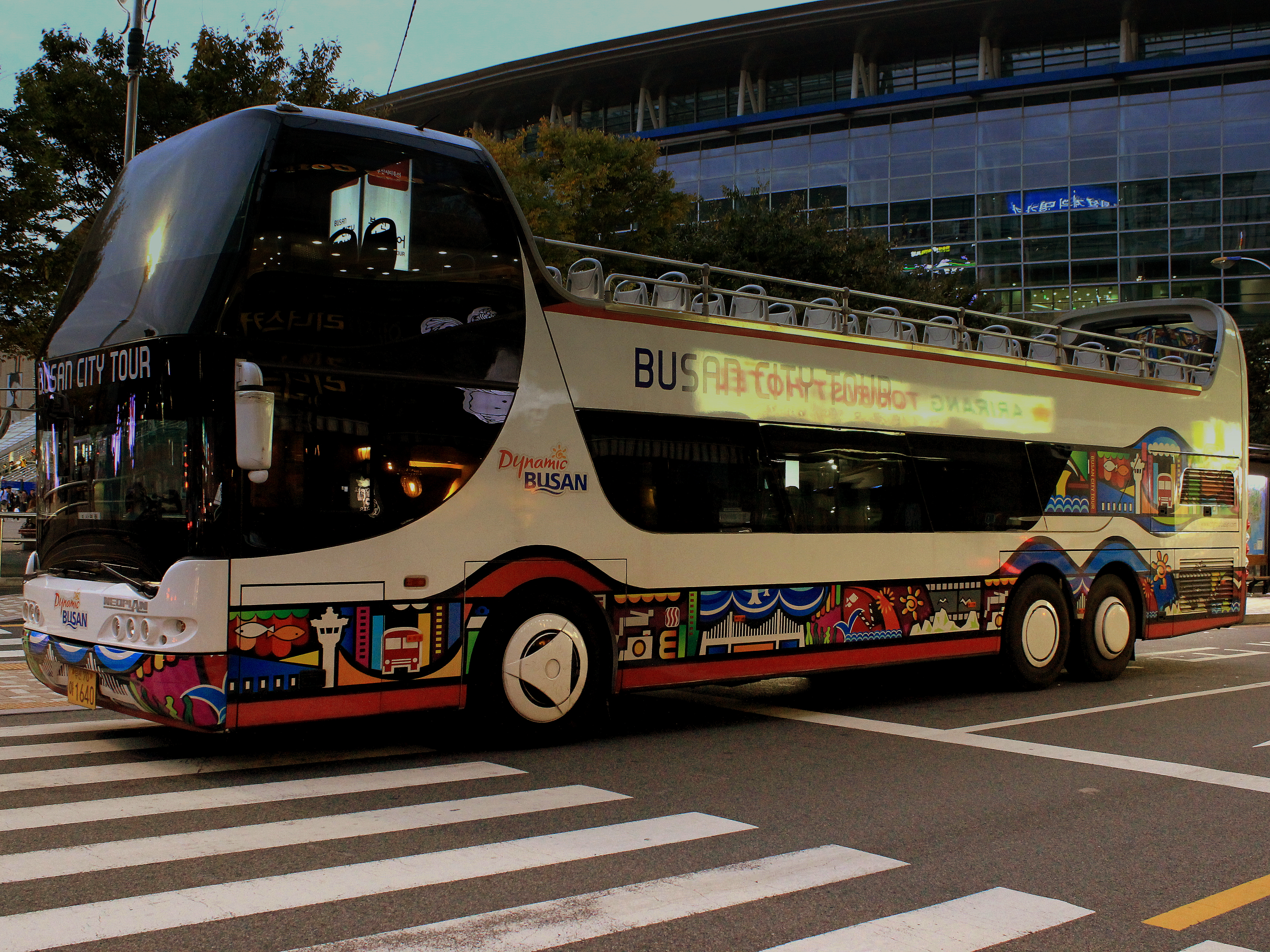 Busan City Tour Bus. Busan, South Korea. Photograph from Flickr; author calflier001; license of cc-by-sa-2.0.